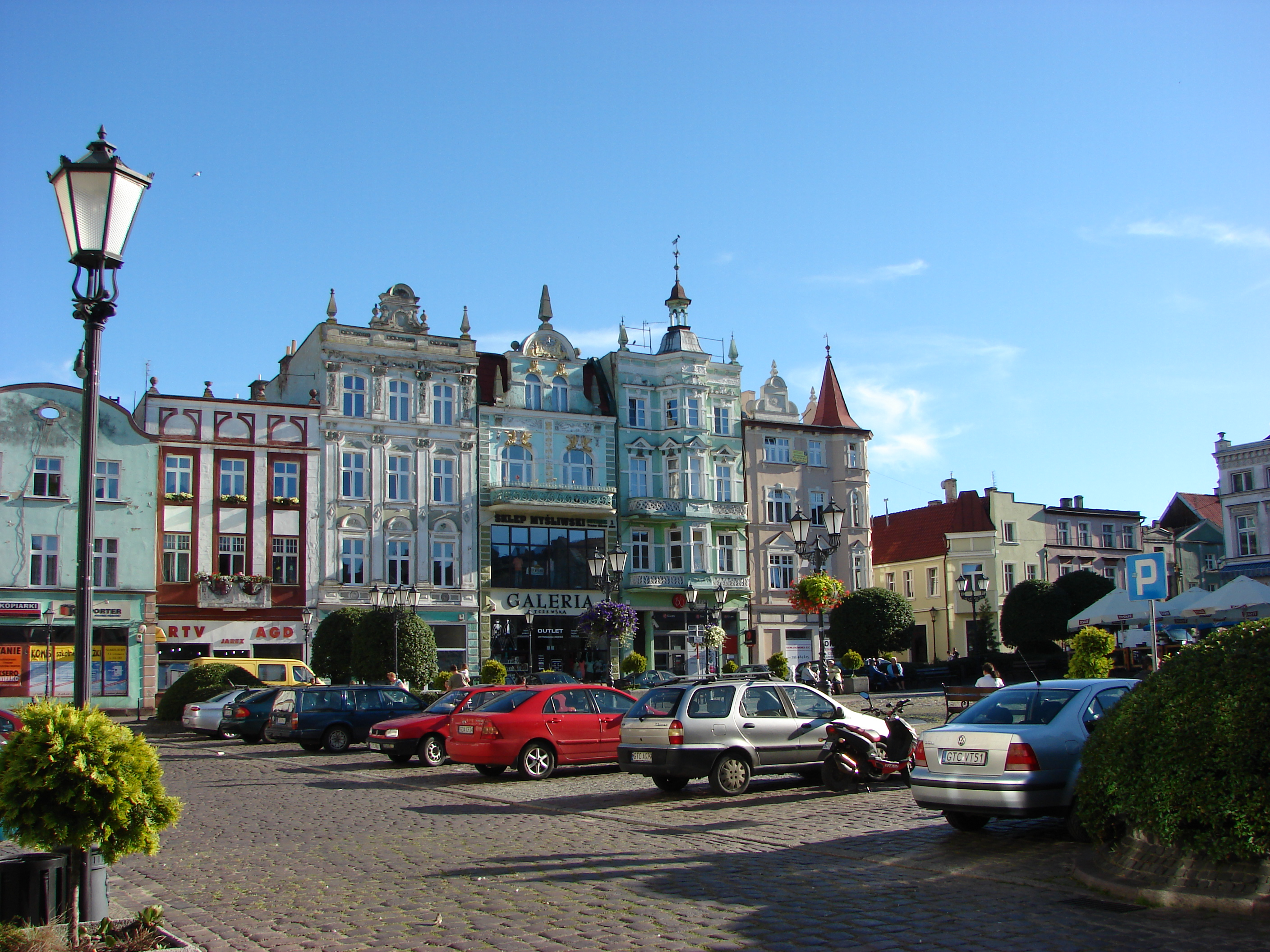 Old Town Market Square, Tczew, Poland